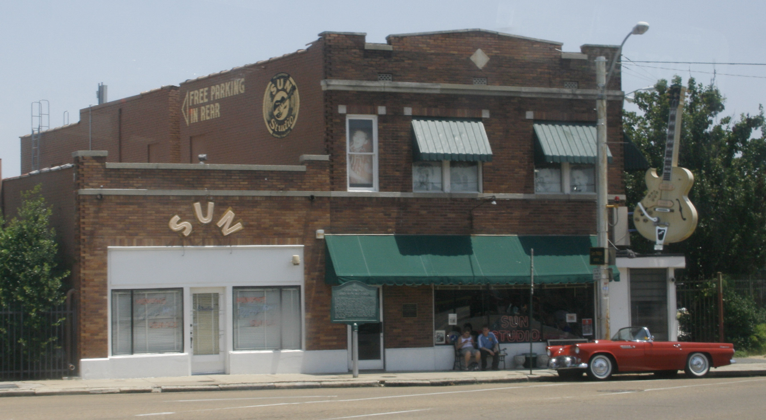 Sun Studio was opened by rock pioneer Sam Phillips at 706 Union Avenue in Memphis, Tennessee, on January 3, 1950. It was originally called Memphis Recording Service, sharing the same building with the Sun Records label business. Reputedly the first rock-and-roll single, Jackie Brenston and his Delta Cats' "Rocket 88" was recorded there in 1951 with song composer Ike Turner on keyboards, leading the studio to claim status as the birthplace of rock & roll. Blues and R&B artists like Howlin' Wolf, Junior Parker, Little Milton, B.B. King, James Cotton, Rufus Thomas, and Rosco Gordon recorded there in the early 1950s. Rock-and-roll, country music, and rockabilly artists, including unknowns recording demos and others like Johnny Cash, Elvis Presley, Carl Perkins, Roy Orbison, Charlie Feathers, Ray Harris, Warren Smith, Charlie Rich, and Jerry Lee Lewis, signed to the Sun Records label recorded there throughout the latter 1950s until the studio outgrew its Union Avenue location. Sam Phillips opened the larger Sam C. Phillips Recording Studio, better known as Phillips Recording, in 1959 to take the place of the older facility. In 1969, Sam Phillips sold the label to Shelby Singleton, and there was no recording-related or label-related activity again in the building until the September 1985 Class of '55 recording sessions with Carl Perkins, Roy Orbison, Jerry Lee Lewis, and Johnny Cash, produced by Chips Moman. In 1957, Bill Justis recorded his Grammy Hall of Fame song "Raunchy" for Sam Phillips and worked as a musical director at Sun Records. In 1987, the original building housing the Sun Records label and Memphis Recording Service was reopened as "Sun Studio", a recording business and tourist attraction that has attracted many notable artists including U2, who recorded tracks for Rattle and Hum there on newer equipment Sun had purchased from producer Terry Manning. John Mellencamp plans to record a portion of his upcoming album No Better than This at the studio.